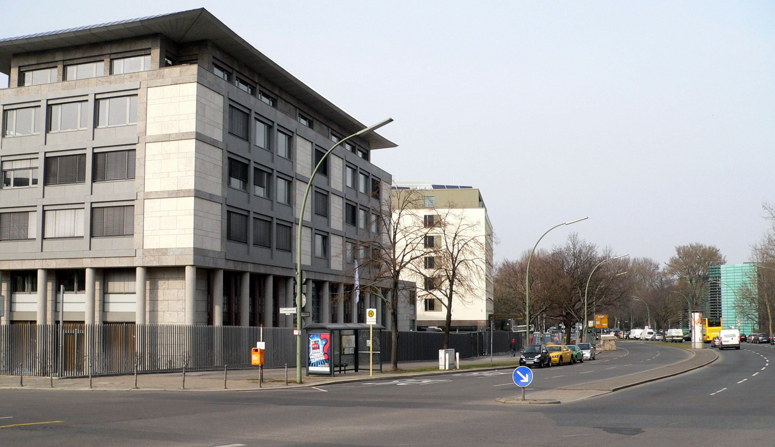 Corean Embassy at Stülerstraße (Berlin-Tiergarten)